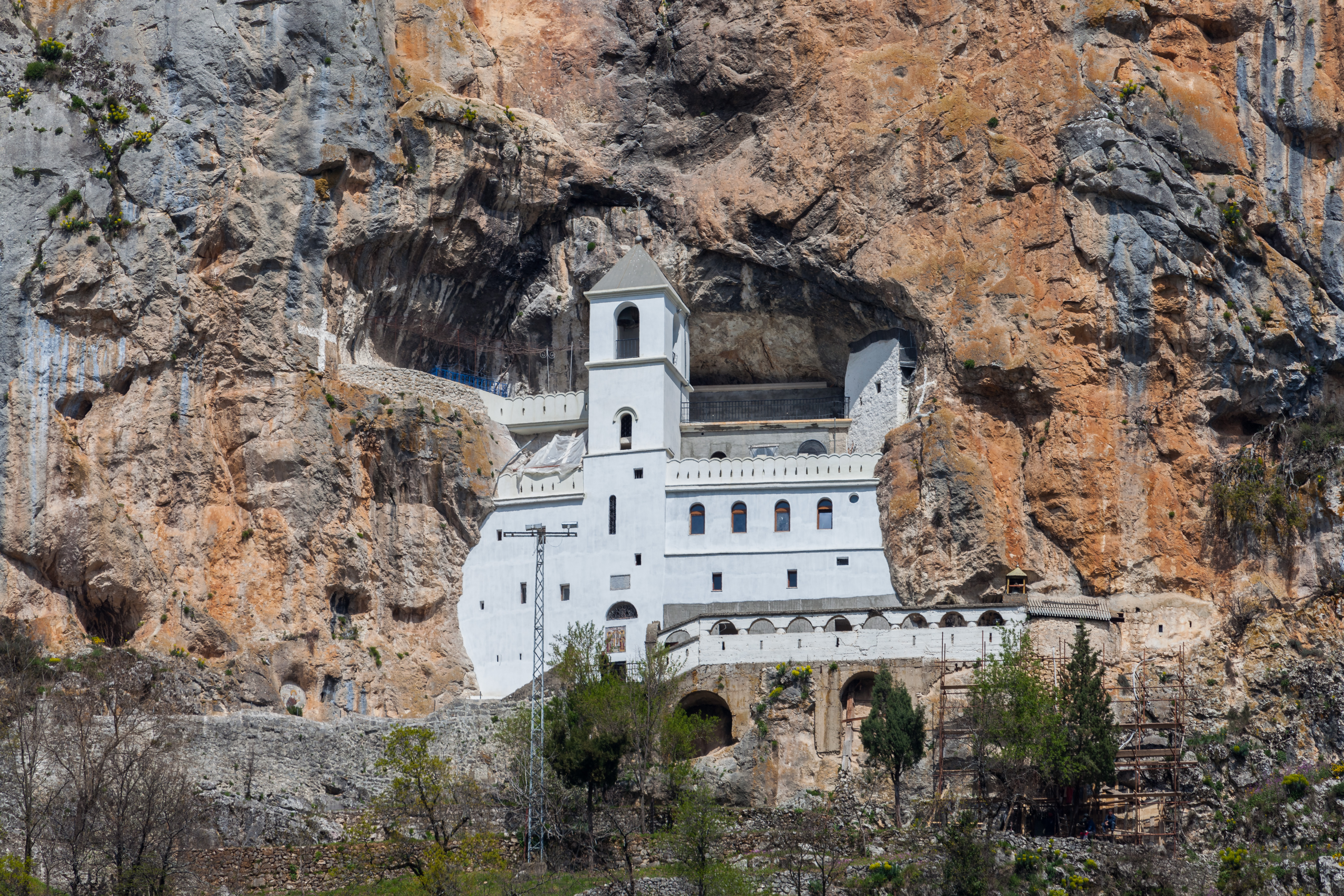 Ostrog monastery, Montenegro